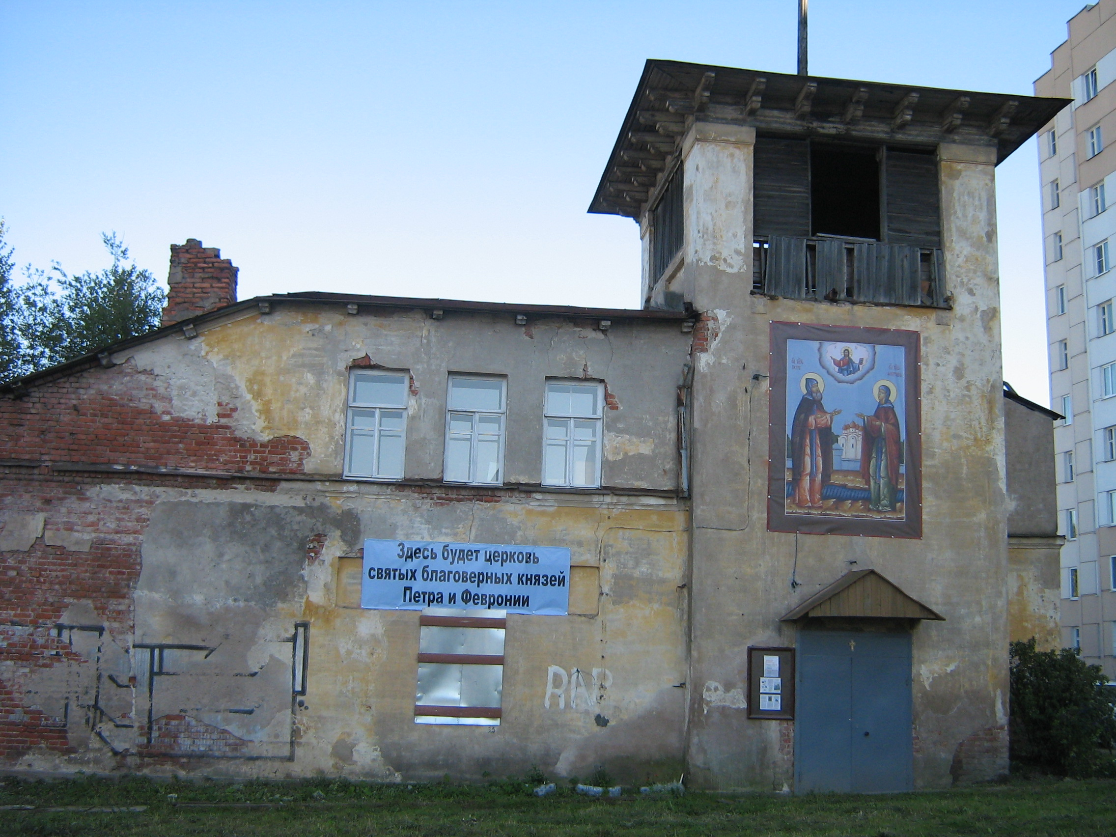 Saint Petersburg (Russia), Petergof.